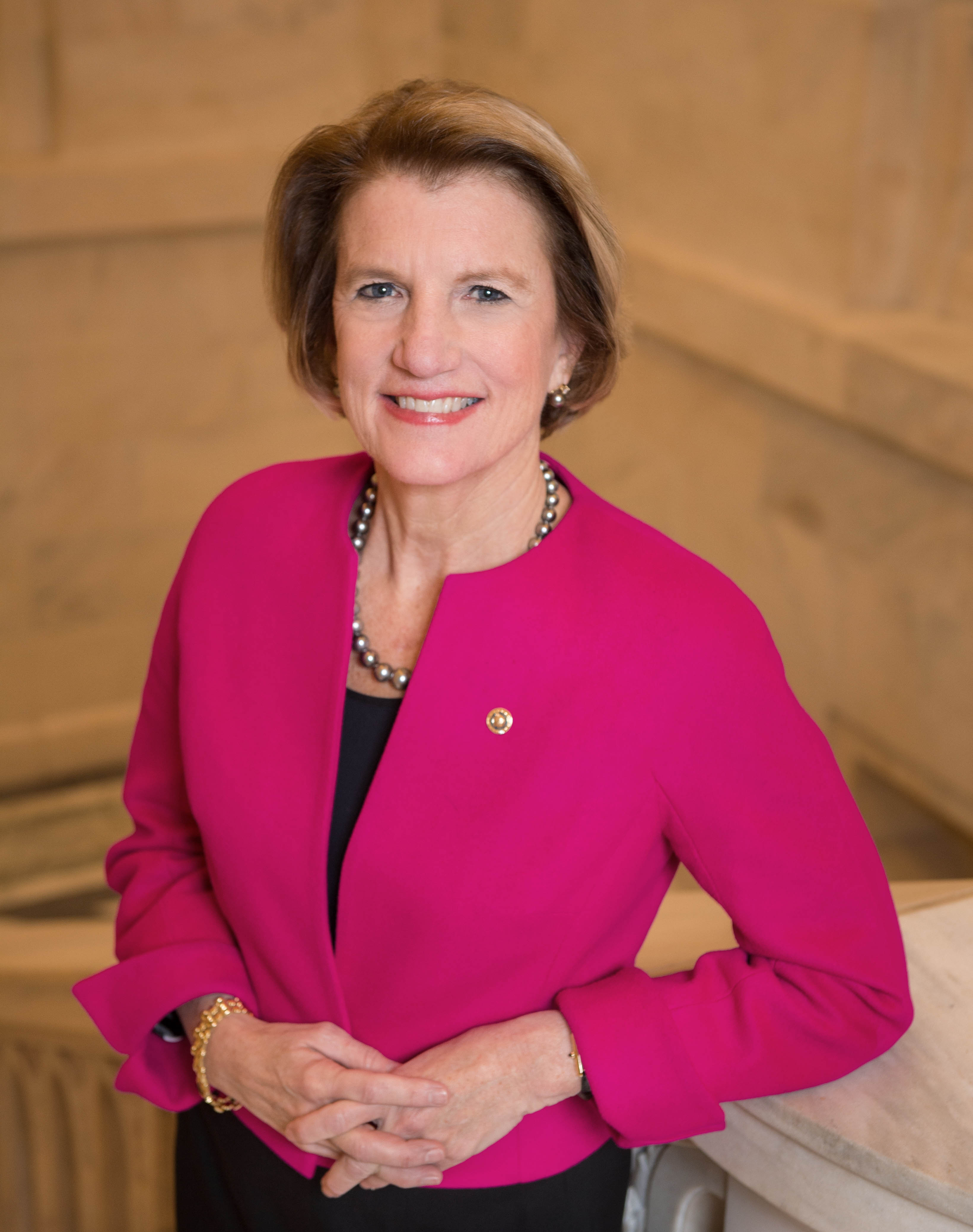 Shelley Moore Capito official portrait, 114th Congress